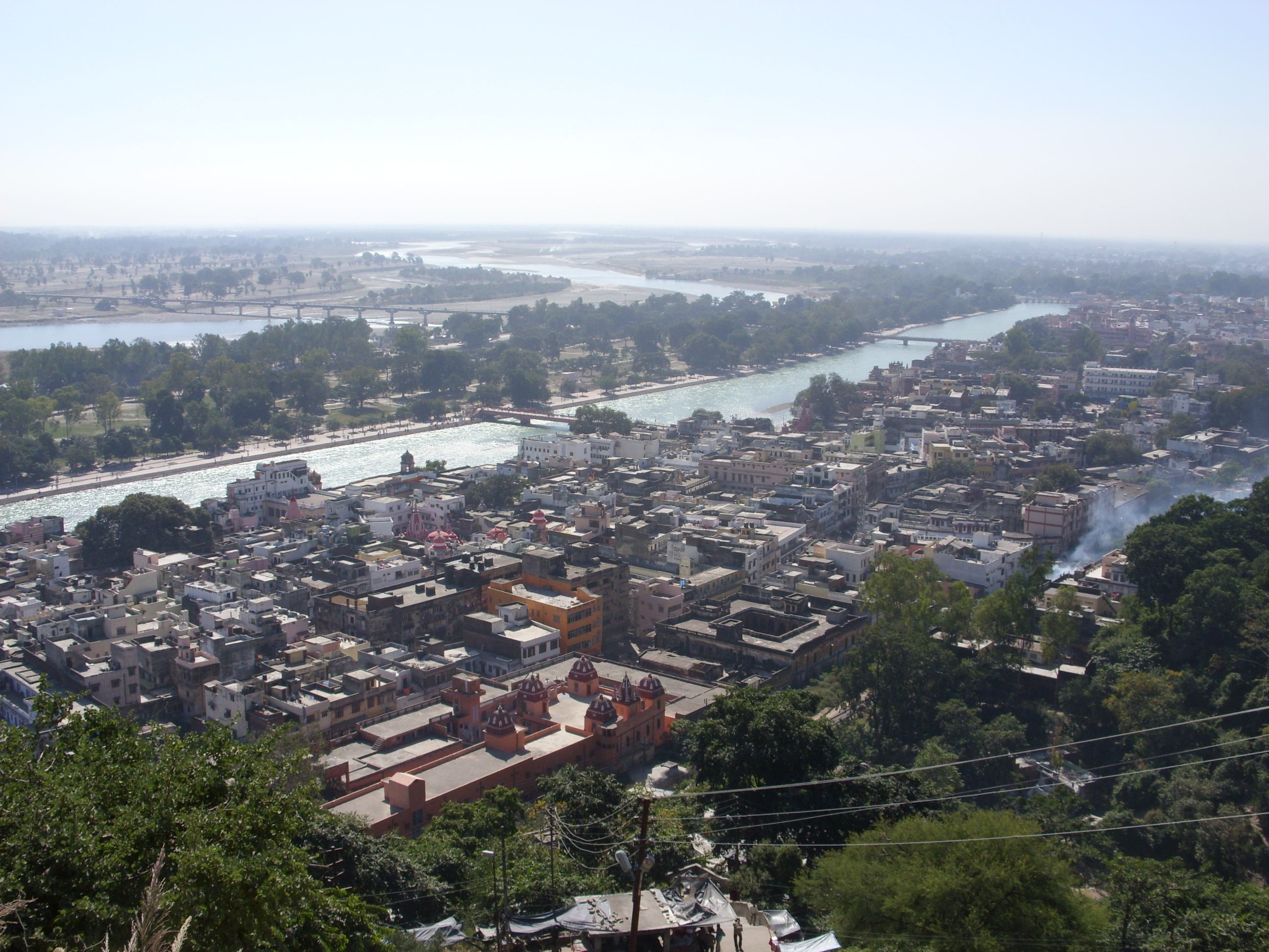 View on Haridwar, Uttaranchal.